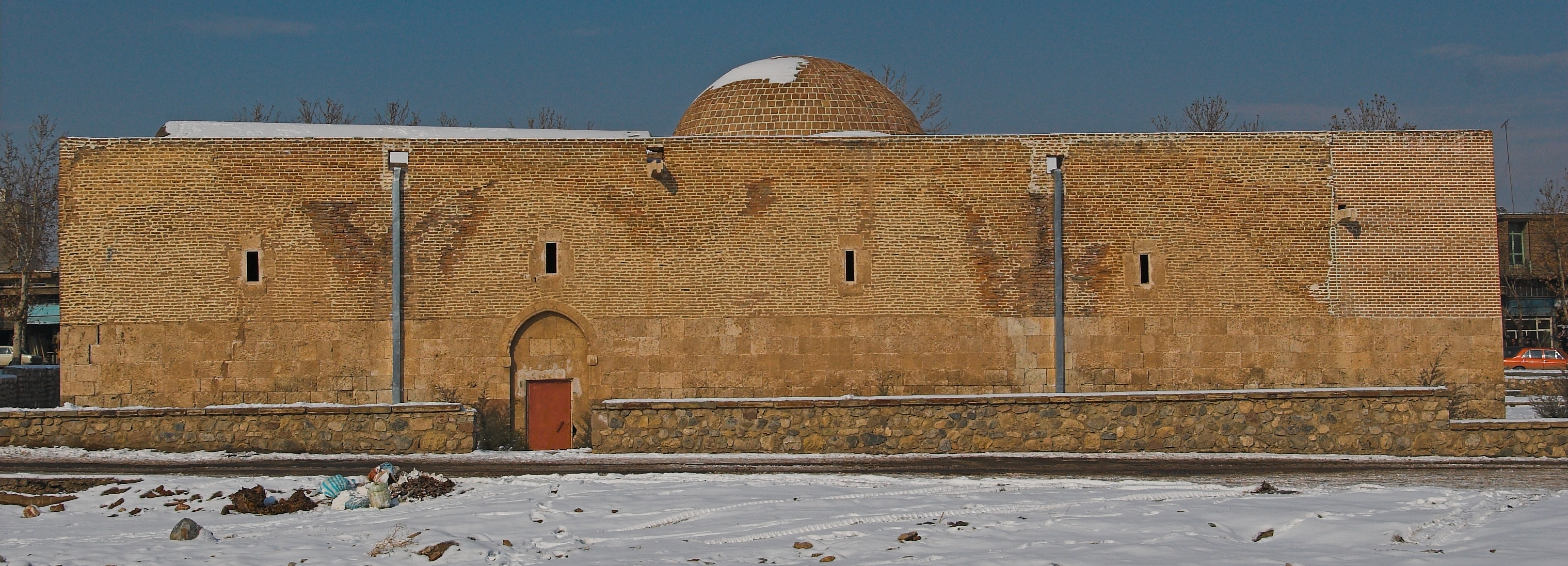 Serkis Church, in the center of Khoy, Northwestern Iran